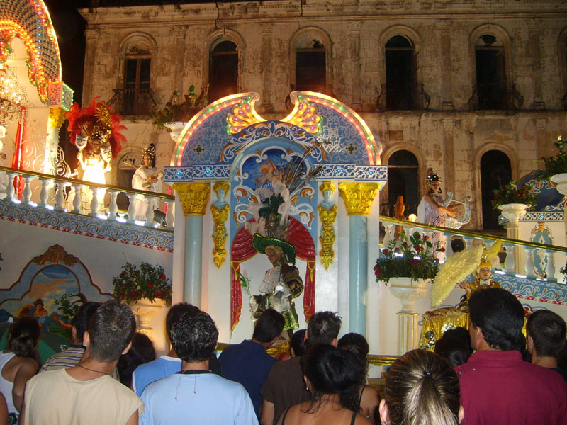 my photos from parrandas in taguayabon, cuba.